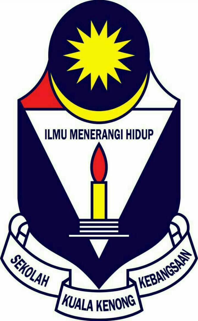 Official emblem of SK Kuala Kenong